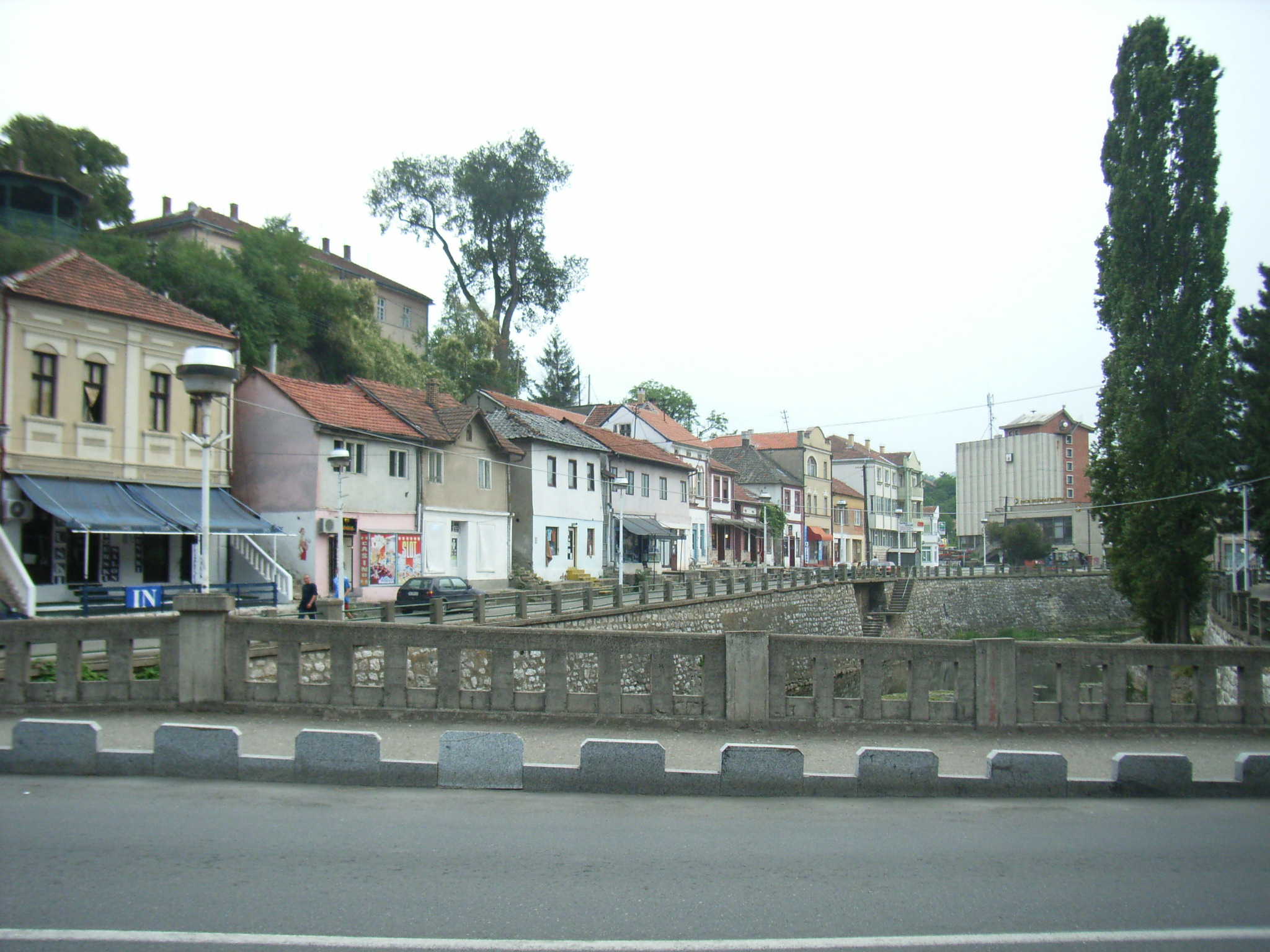 Knjaževac in Serbia, City venter at the river Timok